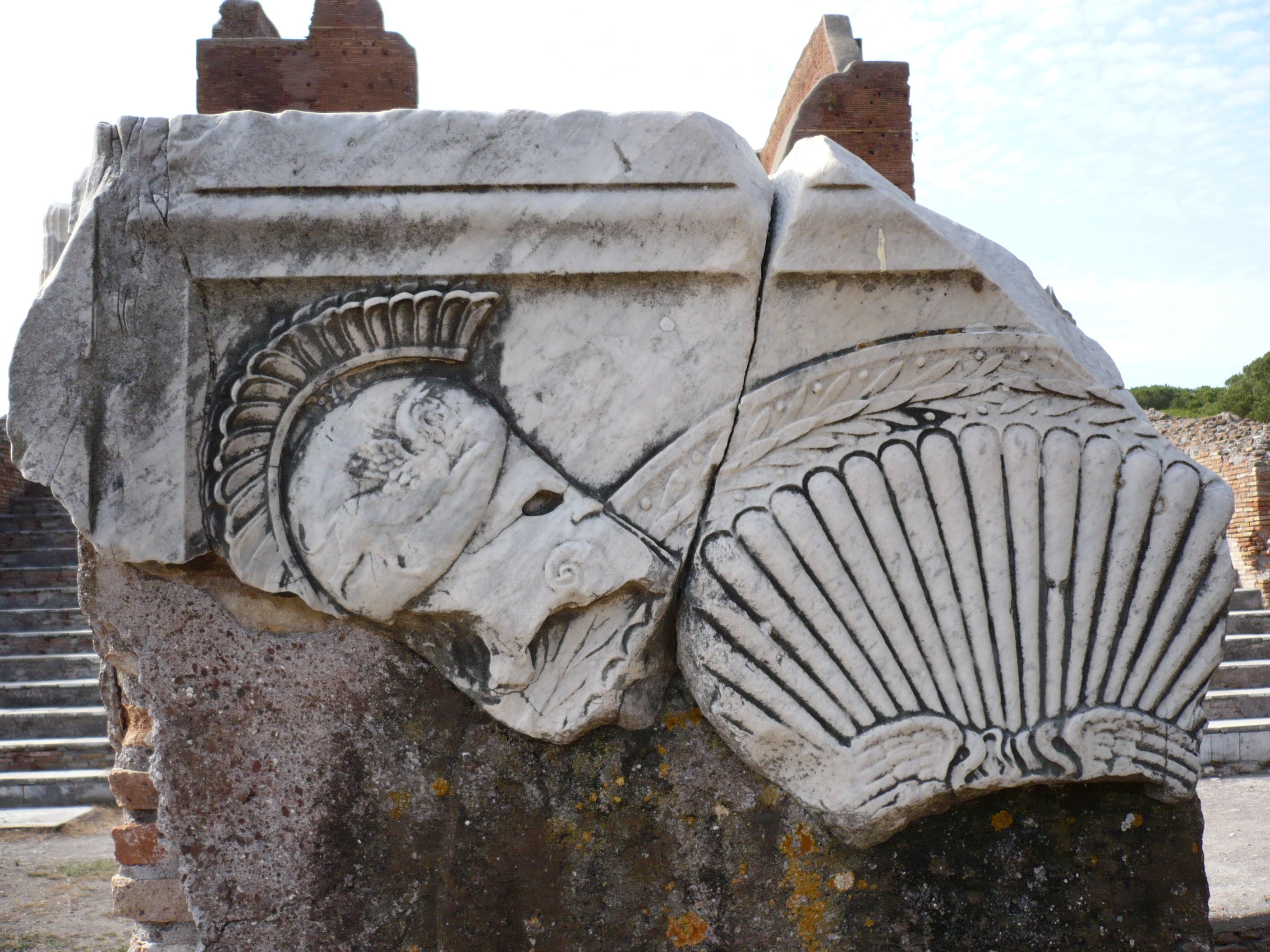 Altar of the Capitolium (Ostia)